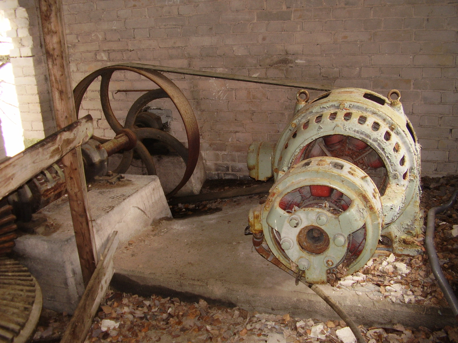 Generator